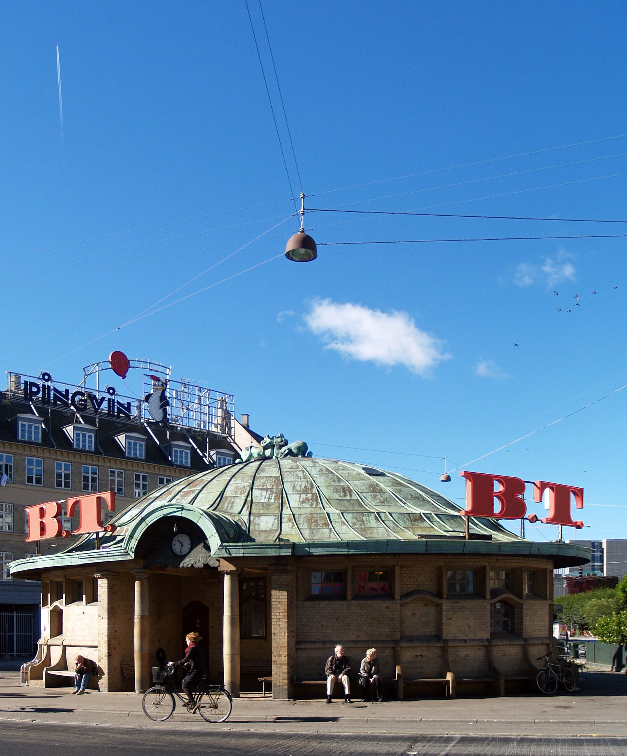 bien (the bee), tramway waiting-room and newsstand, 1904-1907. architect: p.v. jensen-klint (1853-1930). trained as an engineer and later as a painter at the royal academy in copenhagen, jensen-klint was a latecomer to architecture - and what is more, largely self-taught. the tramway waiting-room is an early work in the sense that he had only completed a few houses previous to this, yet he was in his fifties when the project commenced. klint's entry into architecture was polemical, he didn't care for the prevailing historicism and its stucco detailing and argued in writing in favour of craft and national identity. a Danish ruskinian, you could say, and very quickly a whole generation of young architects rallyed around him, making him honoury member of their break-away "free institute of architects", a rebellion against the power and values of the royal academy. the bee is an odd work, a masonry oval in a busy traffic junction in central copenhagen, but as striking as his buildings often are - and high on the list of structures I remember from childhood visits to the capital. stylistically, it is related to jugendstil but in that peculiar and crude Danish version known as "skønvirke" which drew on popular art and the aesthetics of artist/architect thorvald bindesbøll.